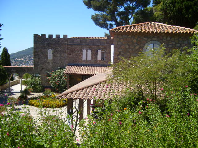 View of the villa "Castel Saint-Claire," built by Olivier Voutier and occupied later by Edith Wharton